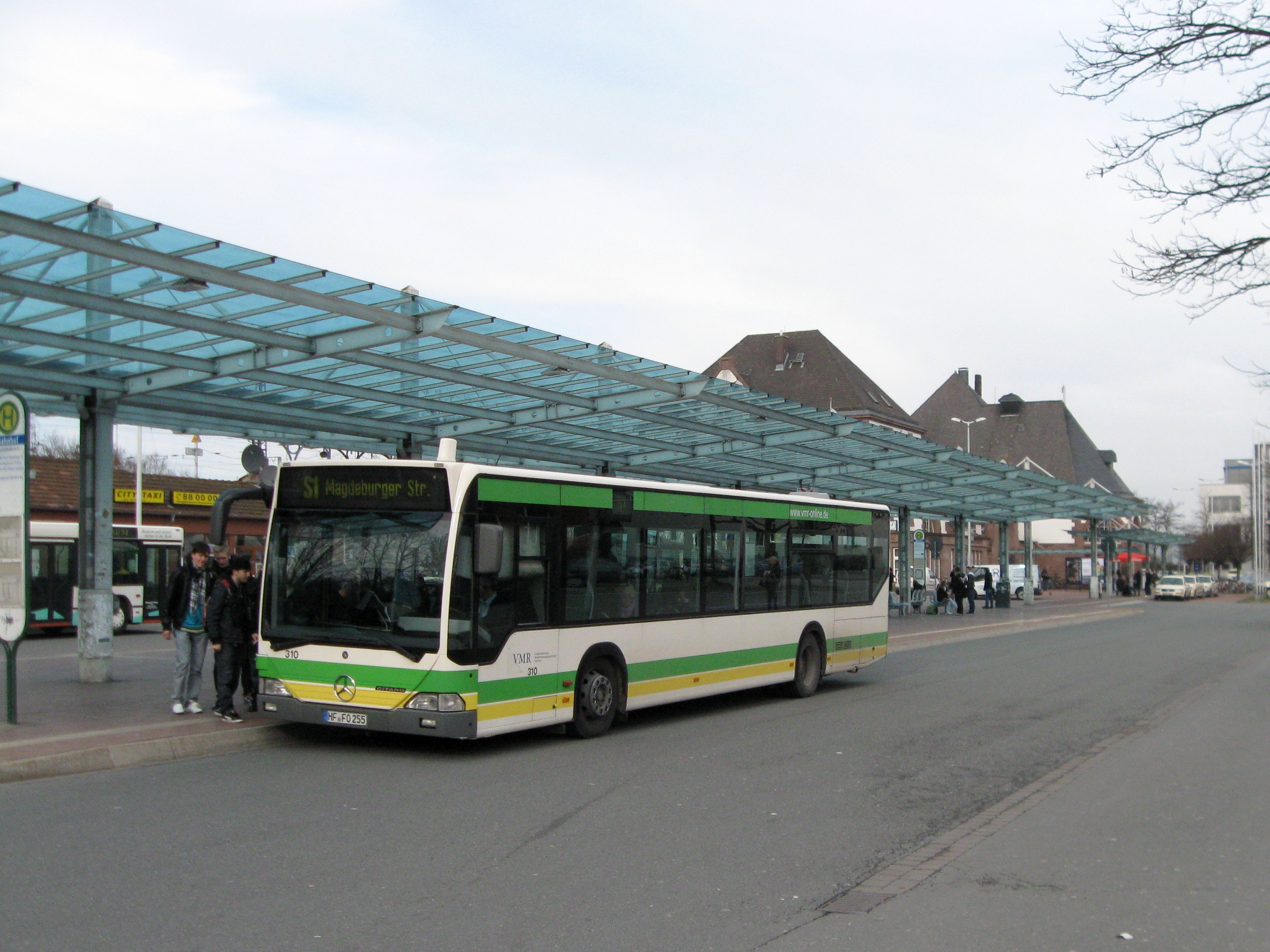 Herford, railway station with bus der VMR (Verkehrsbetriebe Minden-Ravensberg) in february 2011.